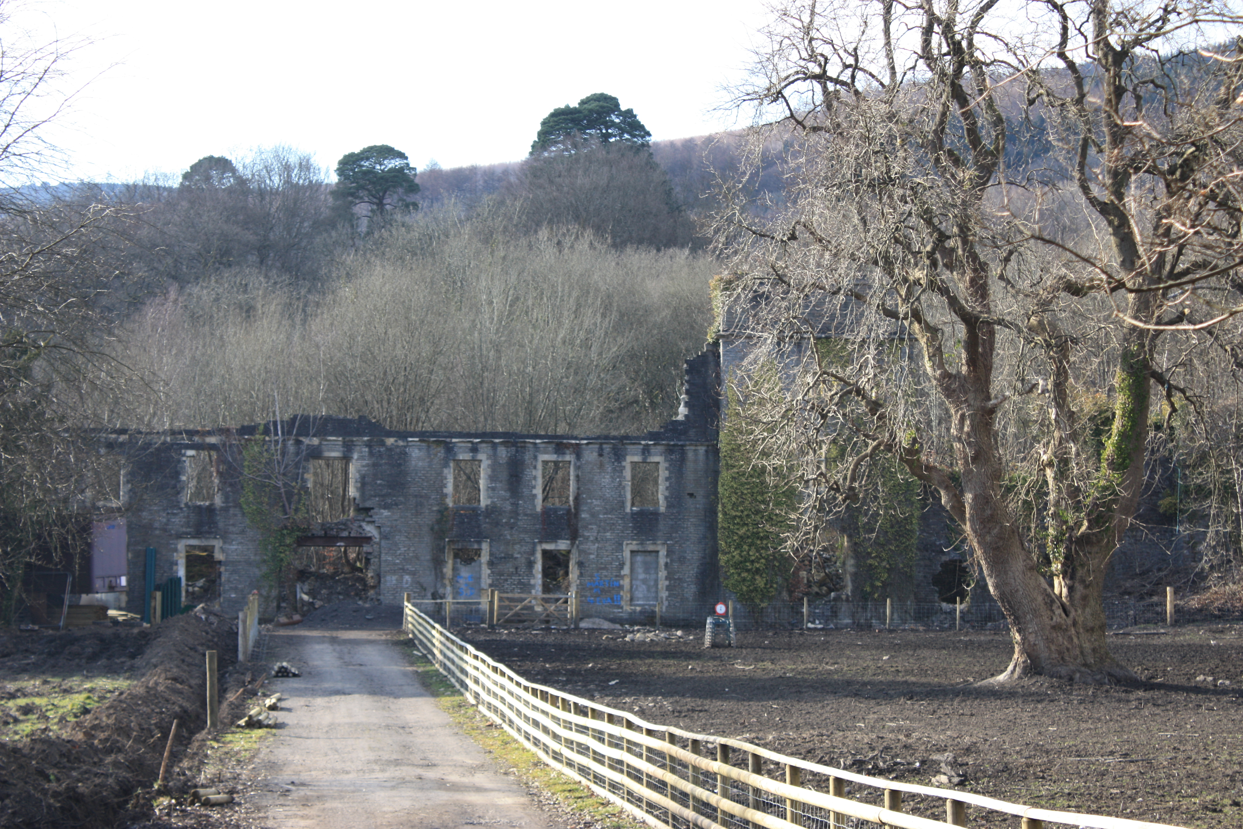 Aberpergwm House, Glynneath, West Glamorgan [Neath Port Talbot], picture taken from the entrance gate on 6 March 2010 showing main facade